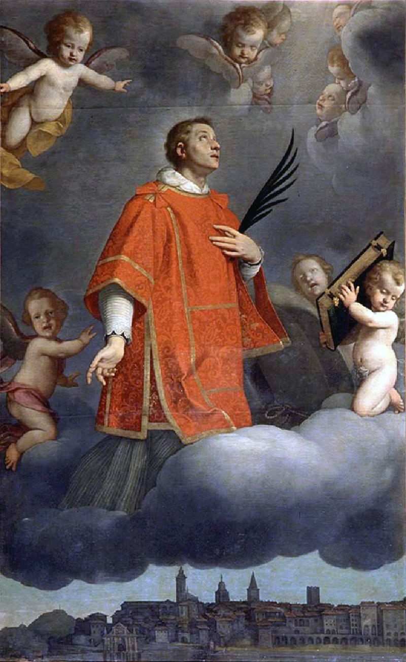 Vincent of Saragossa in glory